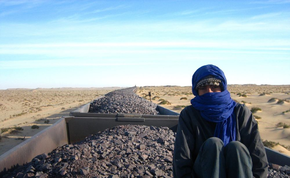 Train carrying iron ore through the western part of Sahara in Mauritania.